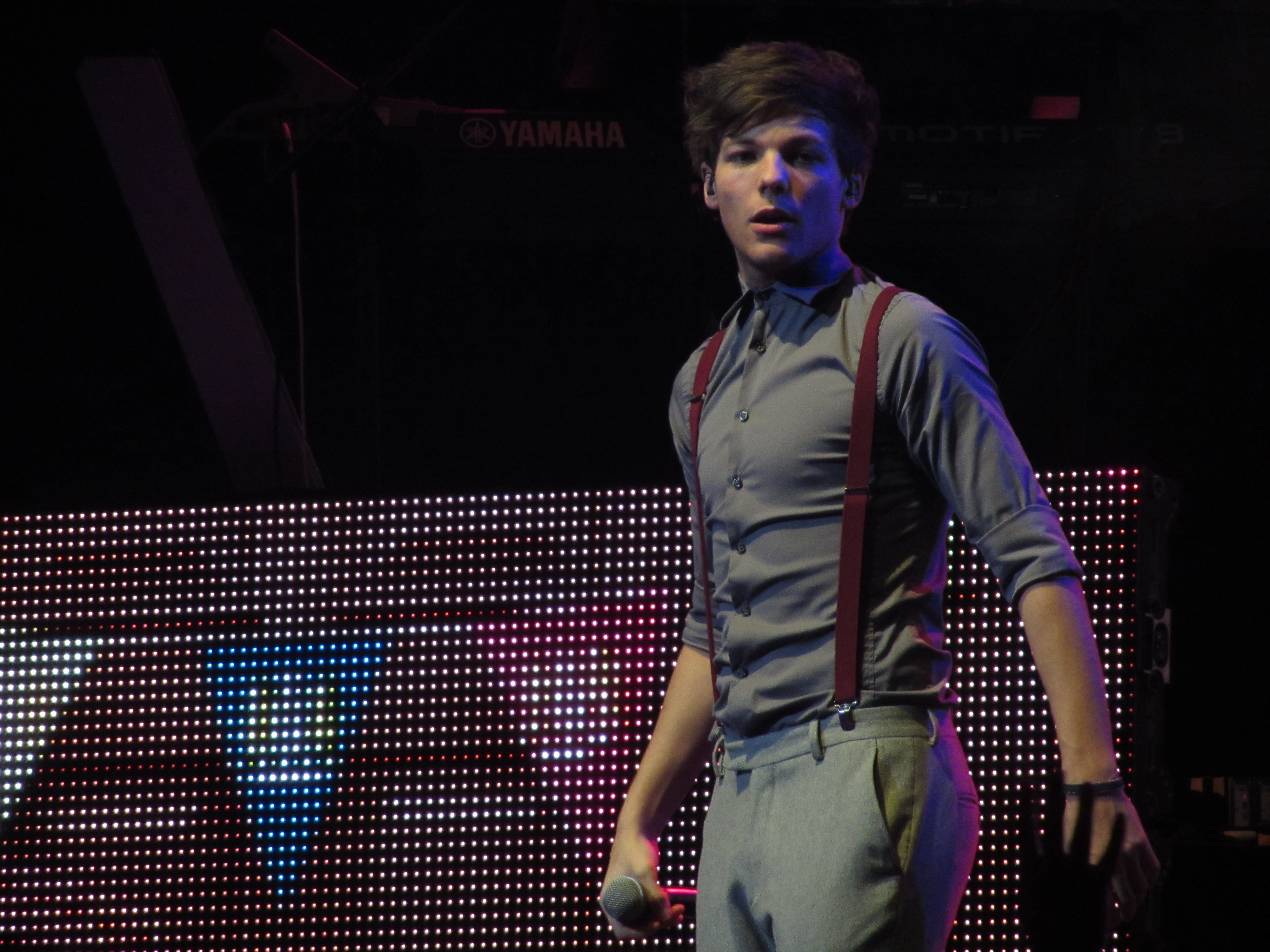 Louis Tomlinson, One Direction, Clyde Auditorium, Glasgow, Saturday 14 January 2012